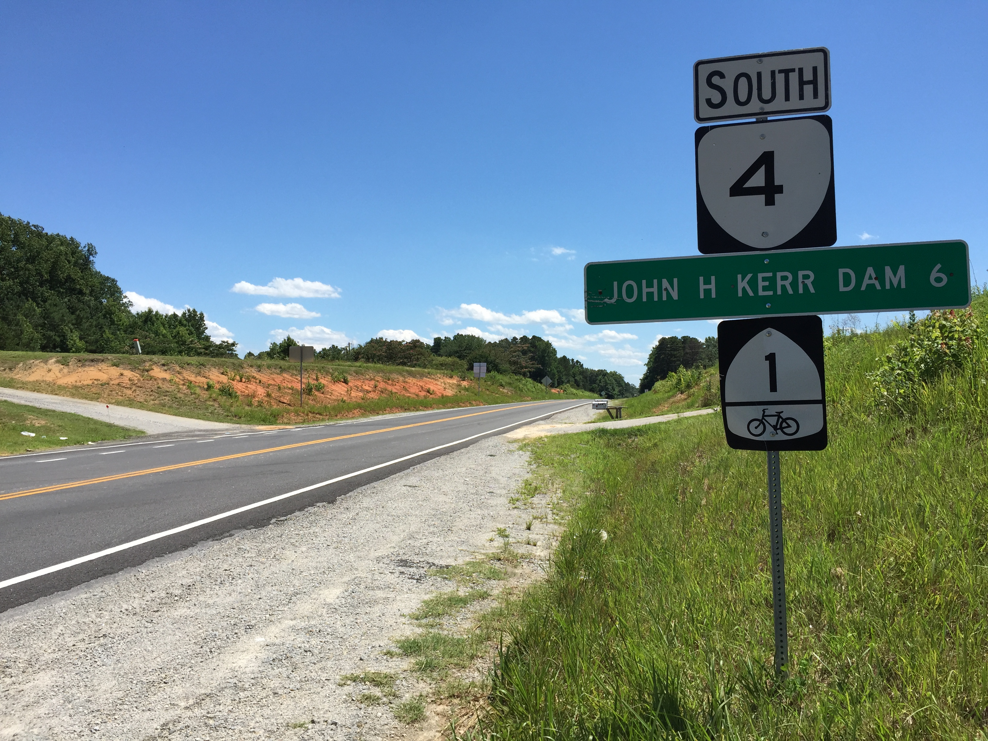 View south along Virginia State Route 4 (Buggs Island Road) at U.S. Route 58 in Mecklenburg County, Virginia